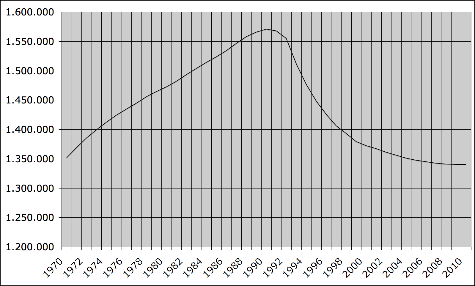 Estonia's population (1970-2010). Created in Microsoft Excel. Data is always from January 1 and taken from Statistics Estonia.